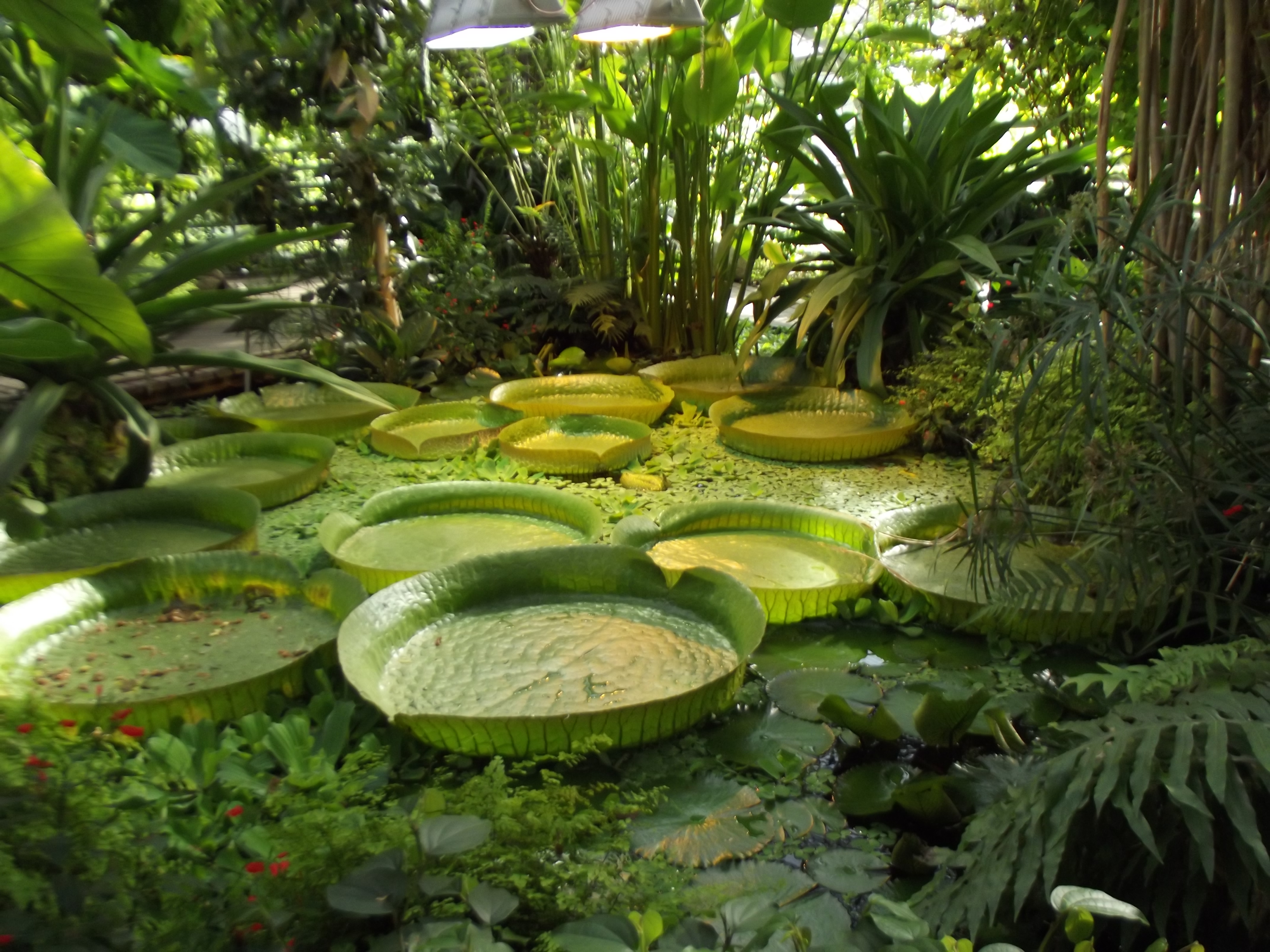 Plant exhibited in a green house which is kept at Tropical temperature